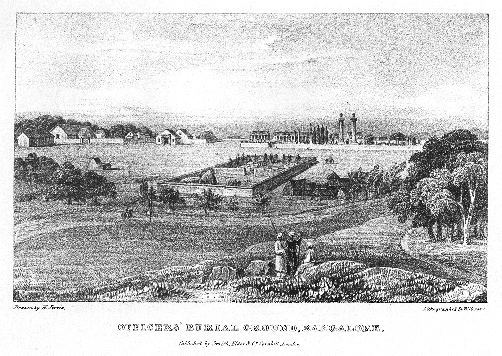 View of Agaram or Agram Cemetery, ASC (near Agaram Road, Victoria Road) in 1834